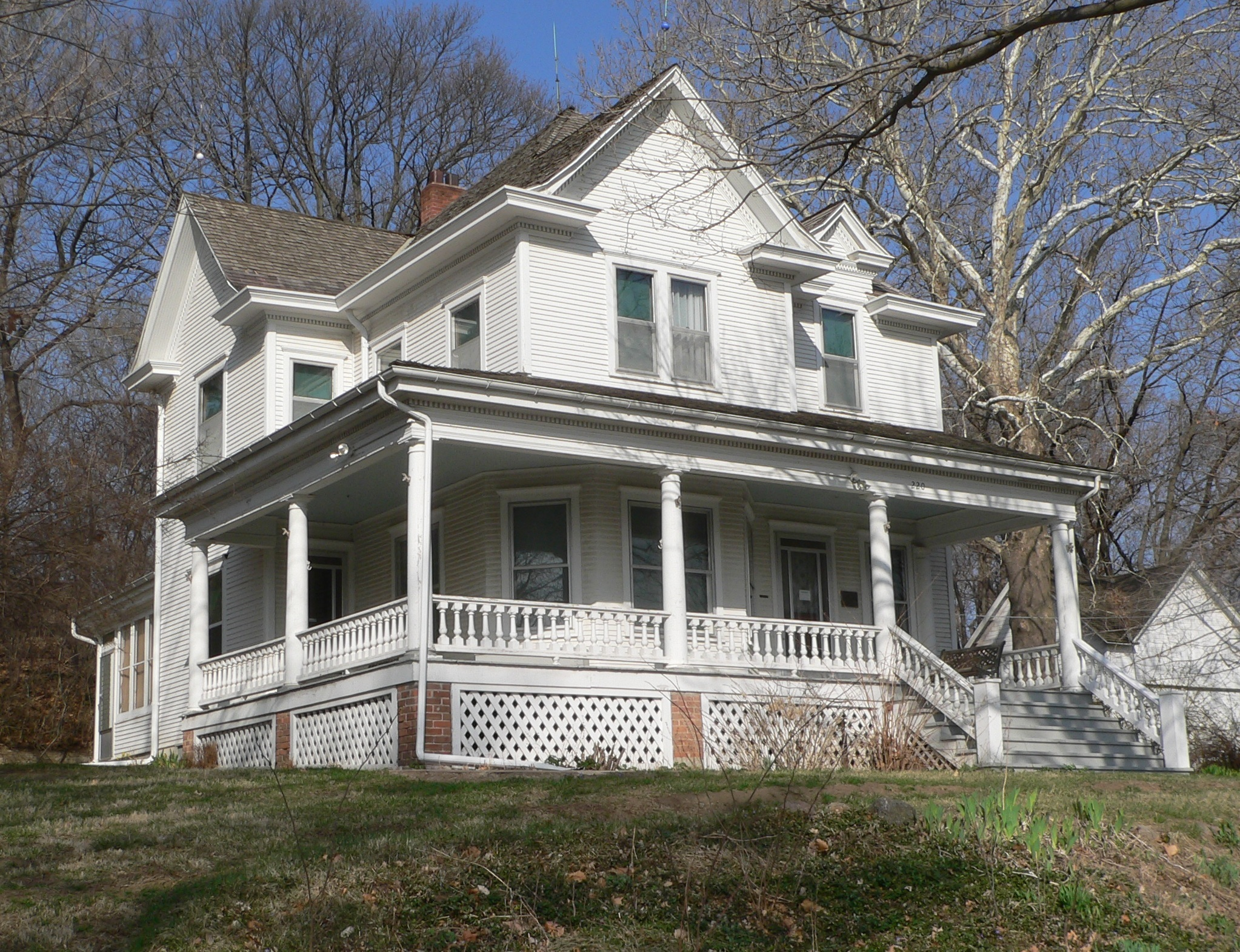 Alfred H. and Sarah Frahm house, located at 220 S. 15th Street in Fort Calhoun, Nebraska; seen from the southeast.